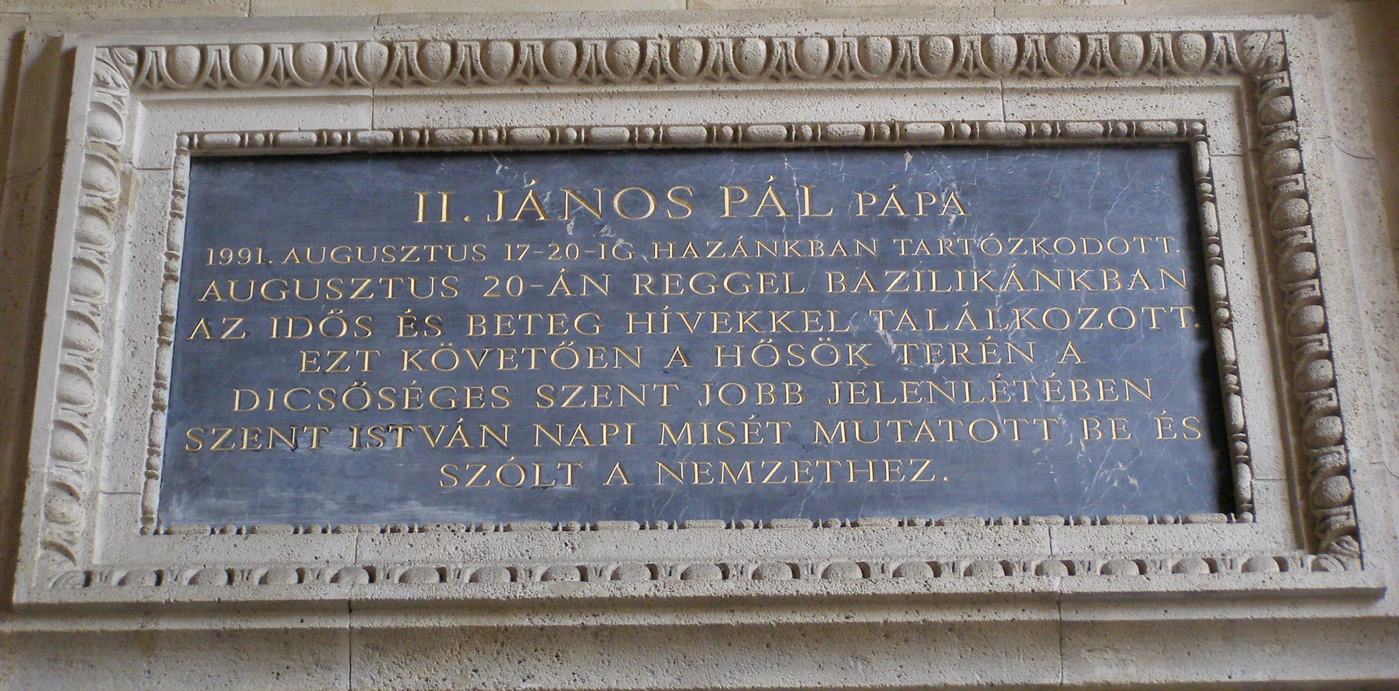 Budapest - St. Stephen basilica - plaque commemorating the Pope John Paul II visit in 1991